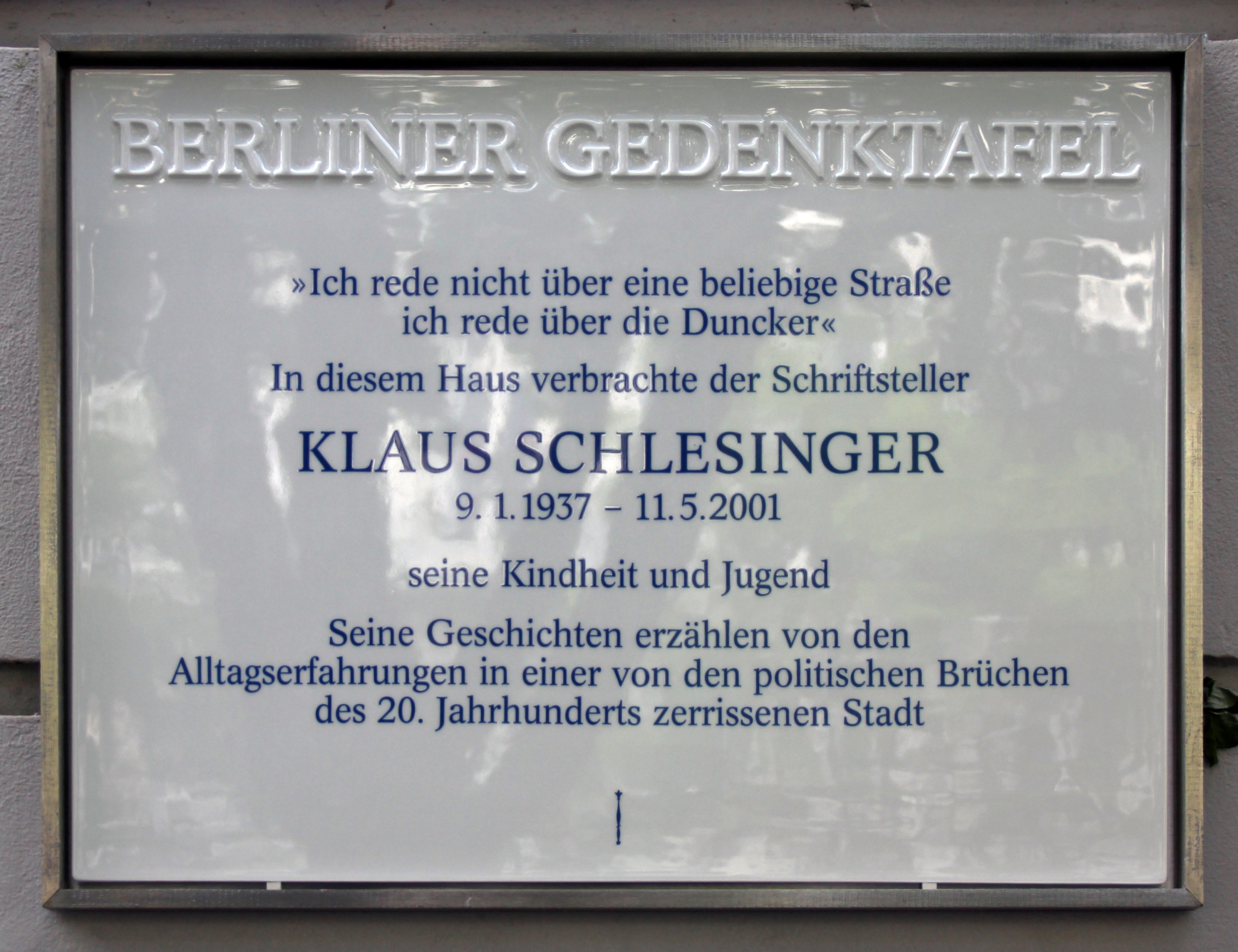 Berlin memorial plaque, Klaus Schlesinger, Dunckerstraße 4, Berlin-Prenzlauer Berg, Germany